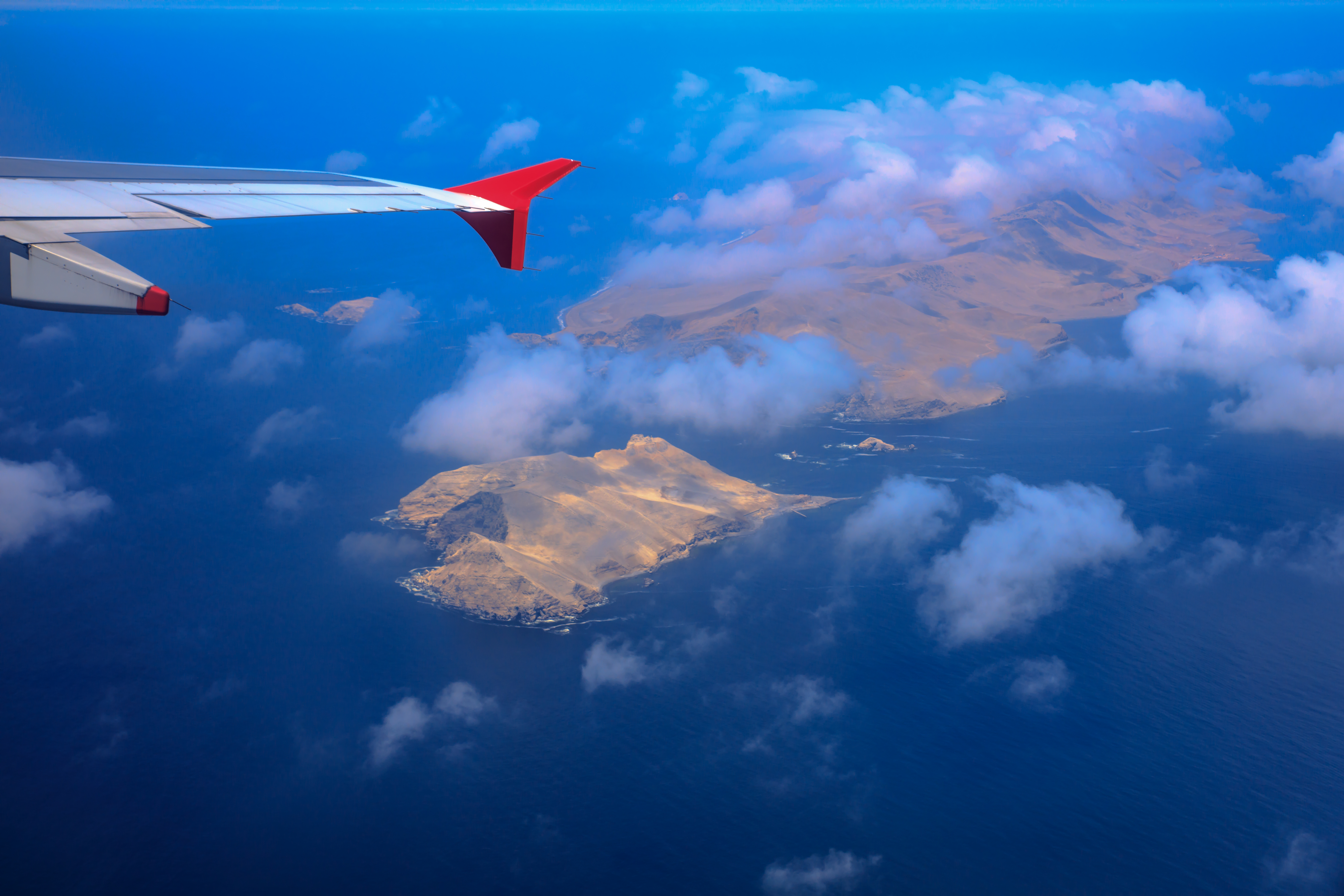 flight from Lima to Quito...offshore Islands of Isla San Lorenzo (Largest) and El Fronton...